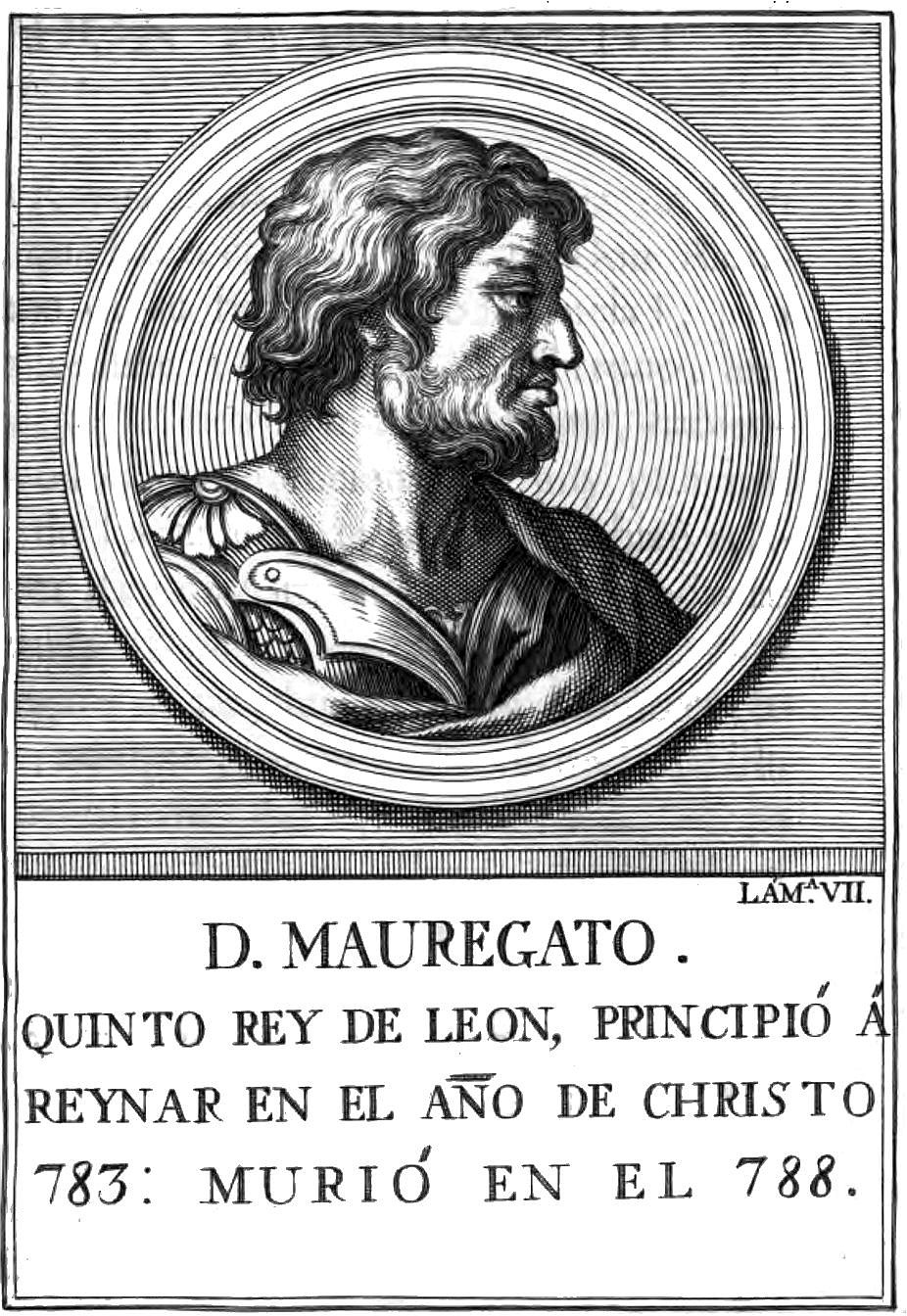 Mauregato of Asturias